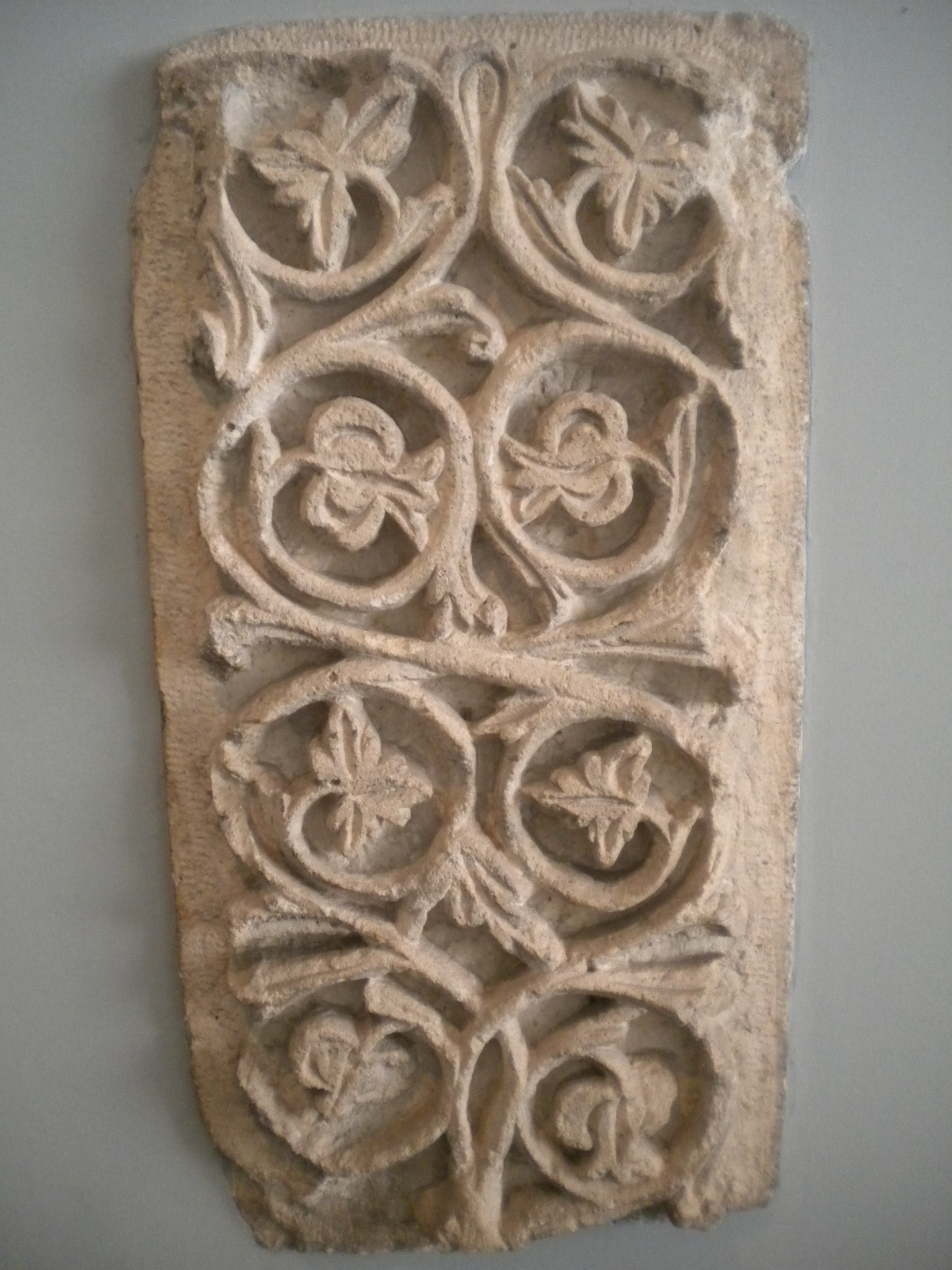 Decoration at Umayyad Palace at Khirbat ul Minya